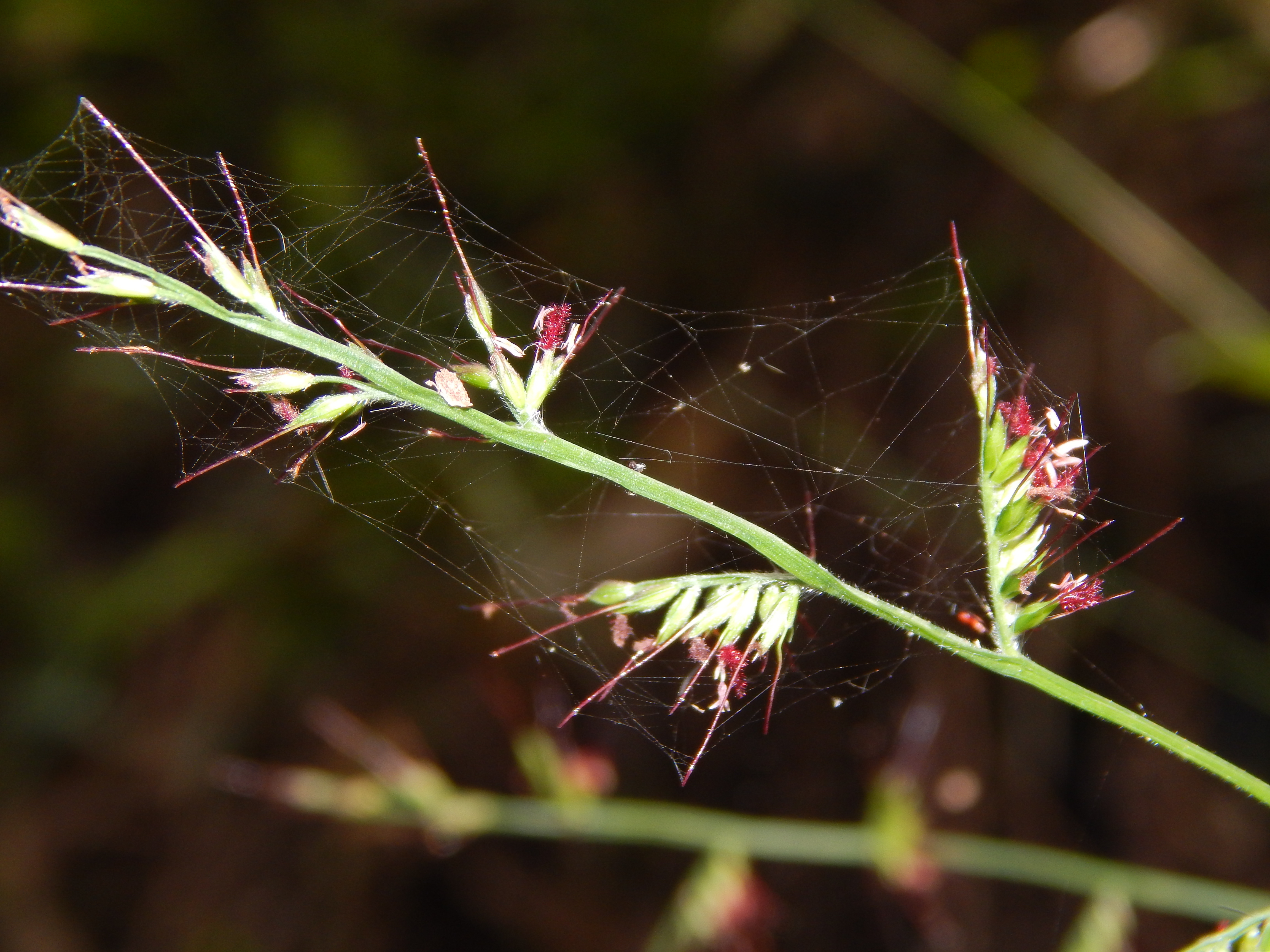 Oplismenus hirtellus (Basketgrass) Flowers at Hoku Nui Piiholo, Maui, Hawaii. December 29, 2014